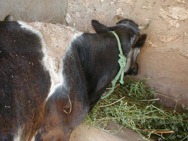 Photosensitization in a Friesian cow (unknown aetiology) : lesions limited to white skin. Walon: Fototinrûlijhaedje a ene cafloreye noere vatche : damadjes djusse so les blankès taetches.